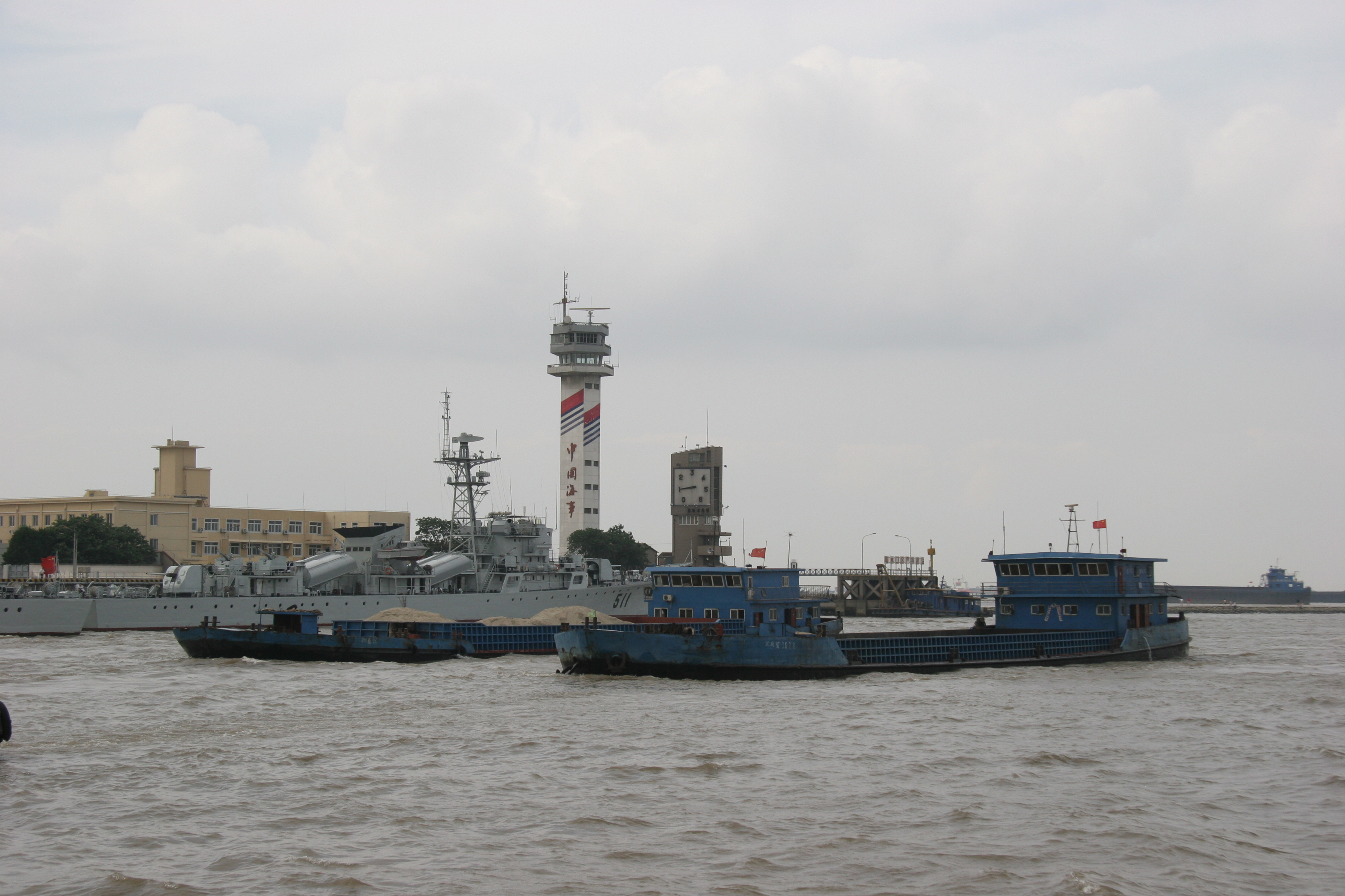 Shanghai unsorted